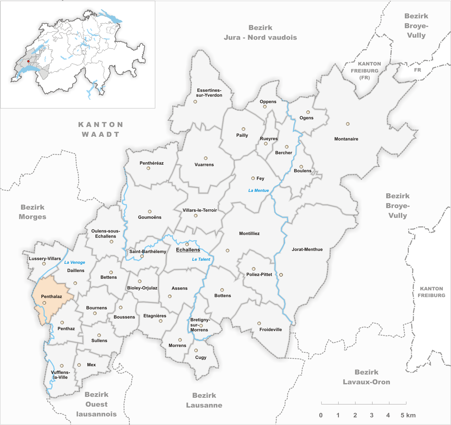 Municipality Penthalaz